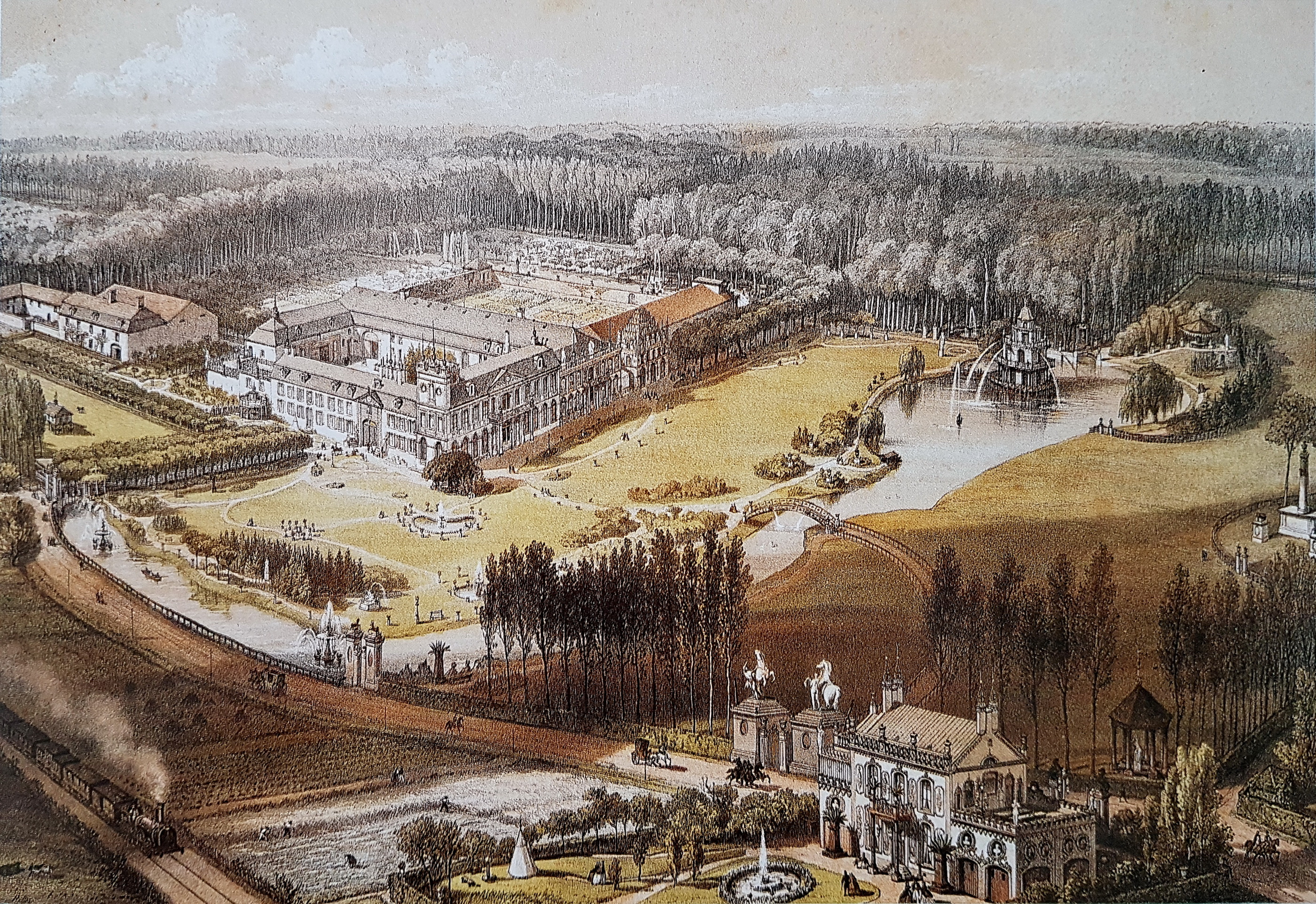 Bird view of Castle Vaeshartelt near Maastricht, Netherlands. The print was made by Th. Müller and printed by Lemercier in Paris for an album titled Album dedié a mes amis et mes enfants that Petrus Regout - owner of Vaeshartelt - had put together around 1860 for family and friends. Throughout the 1860s various versions were printed.